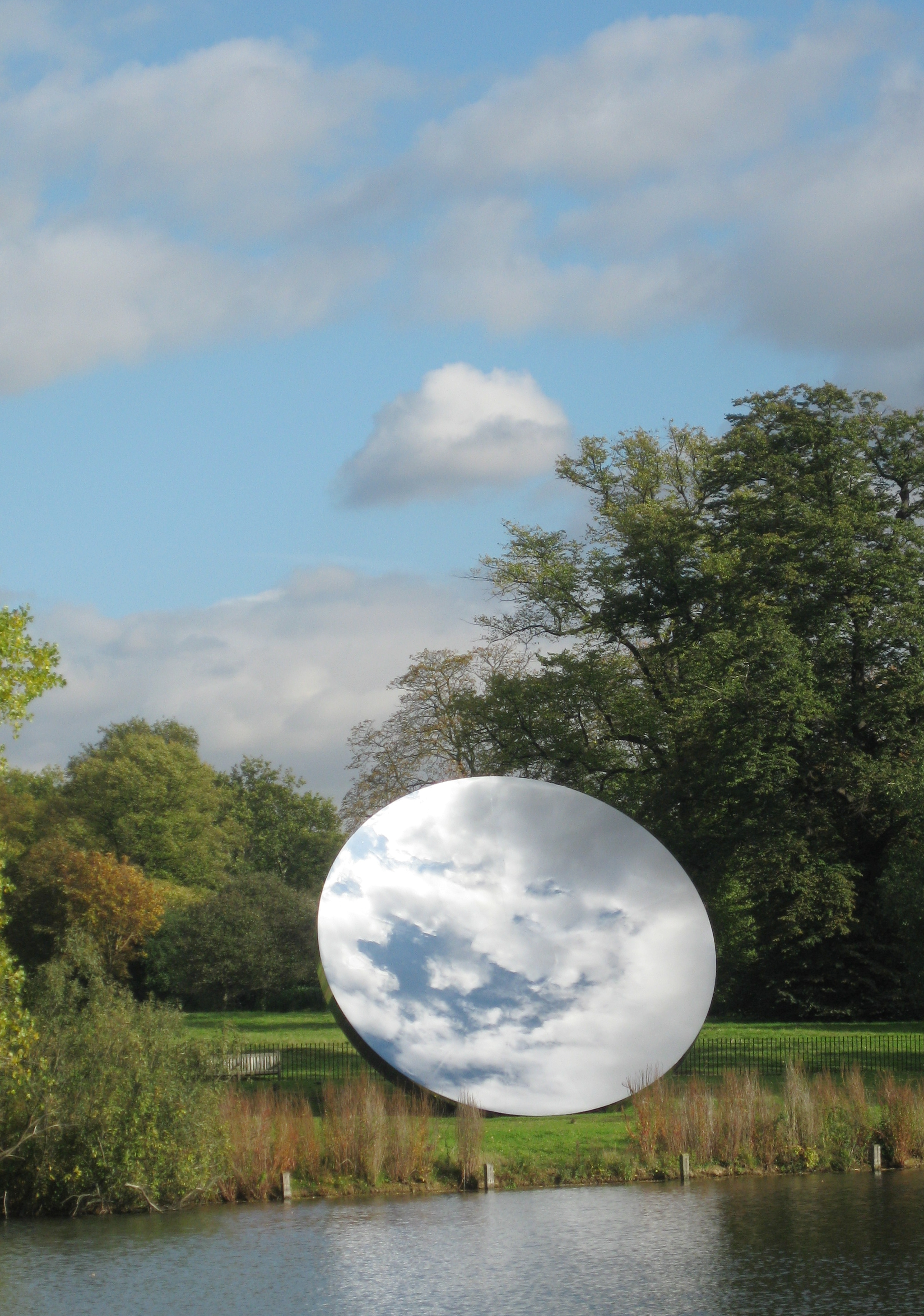 Sky mirror, Kensington Gardens, London. Image slightly lightened and cropped.